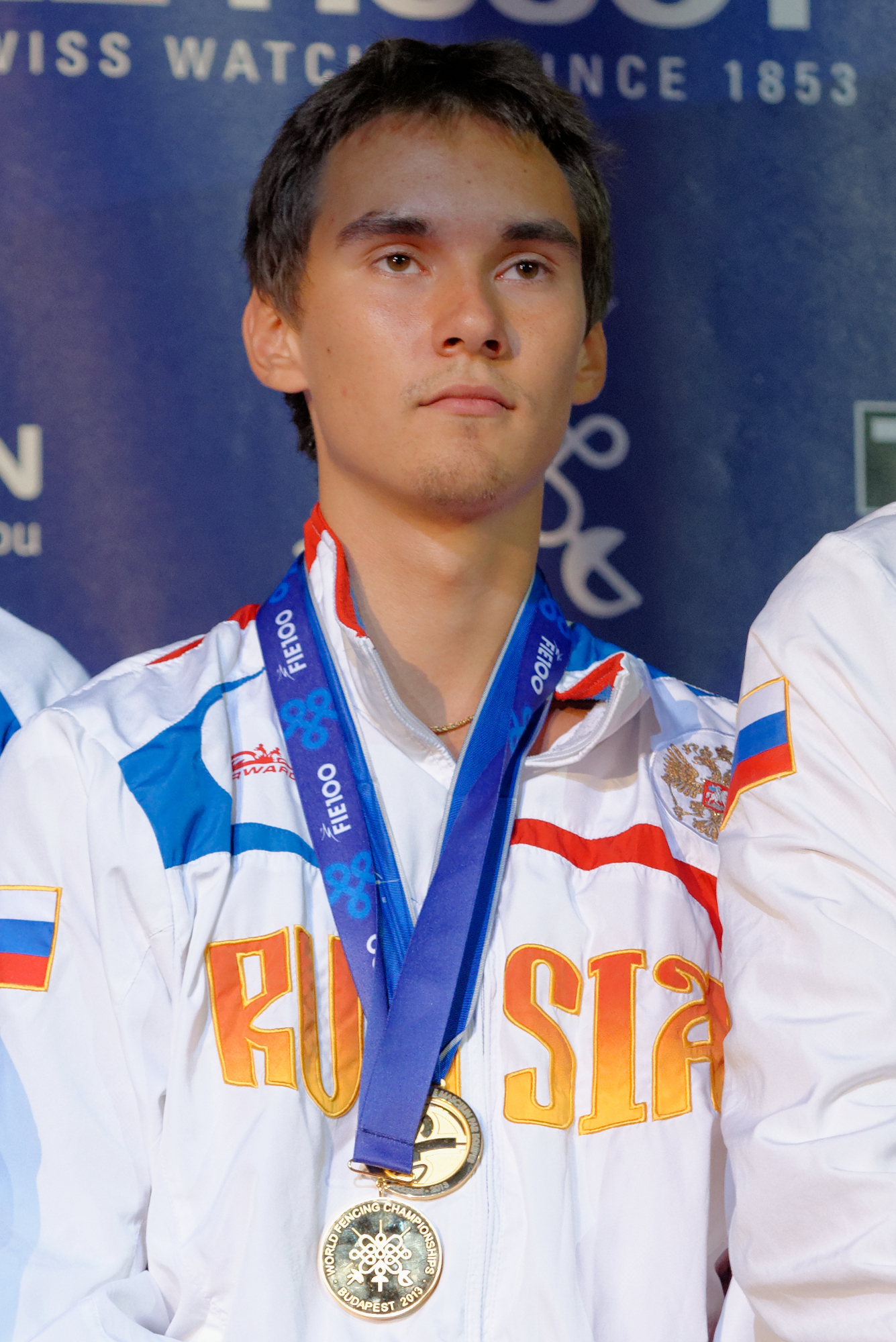 Russia's Kamil Ibragimov stands on the podium of the men's team sabre event of the 2013 World Fencing Championships 2013 at Syma Hall in Budapest on 10 August 2013.